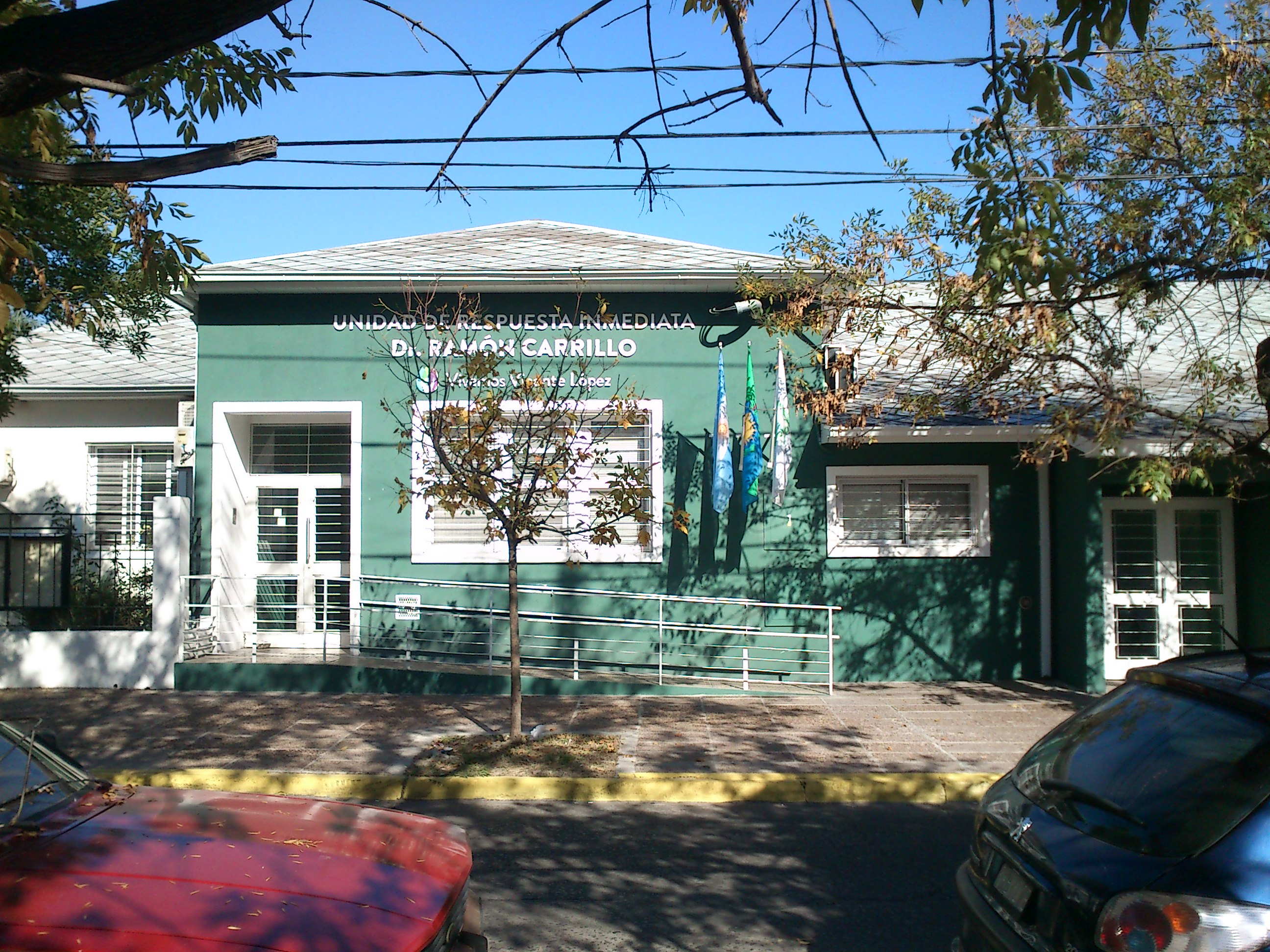 Immediate Response Unit Ramon Carrillo.